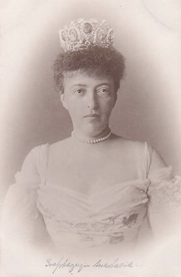 Grand Duchess Mikalovitsch (Anastasie)